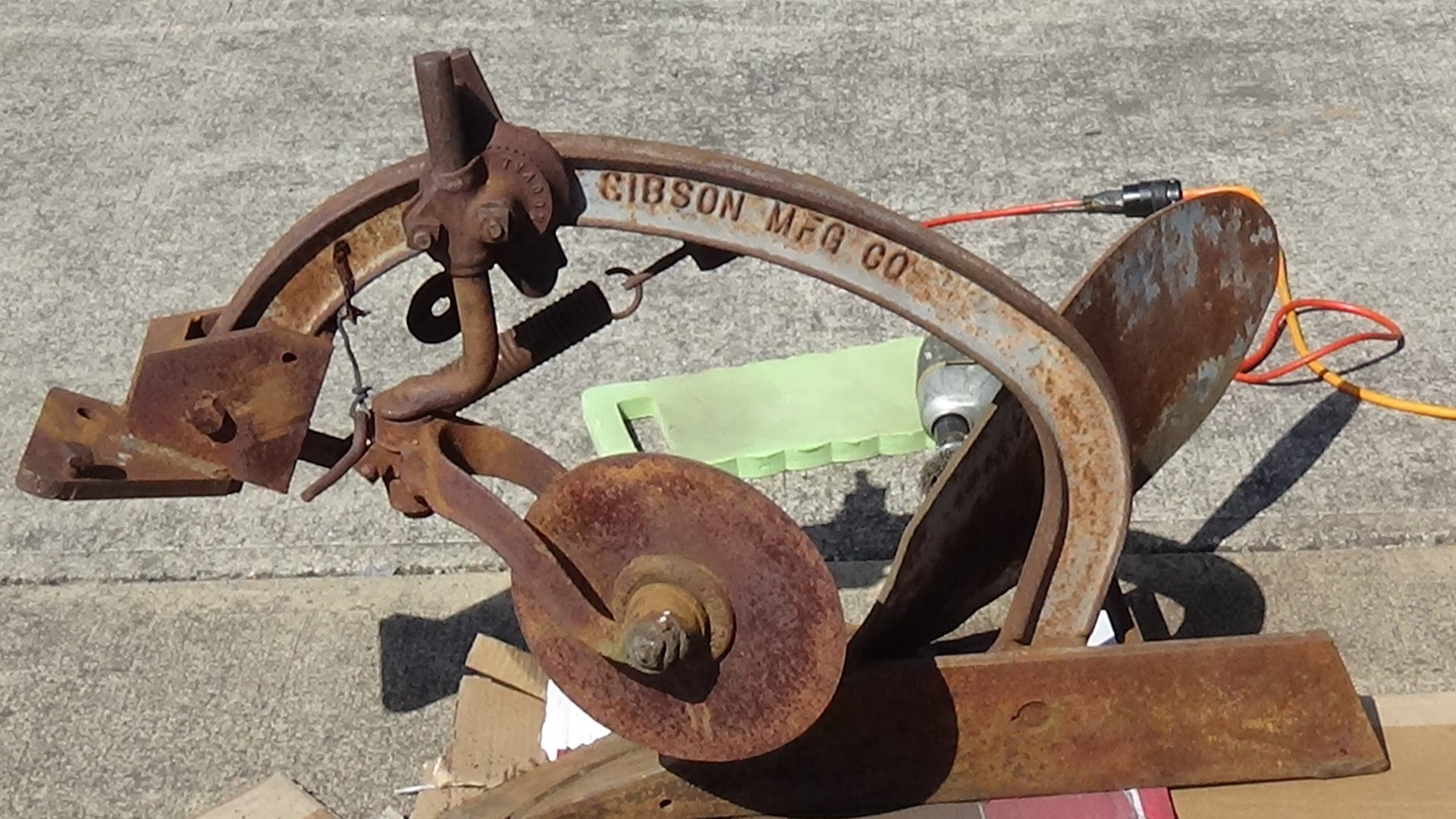 Image of a rusty plow made by Gibson Manufacturing Corporation.